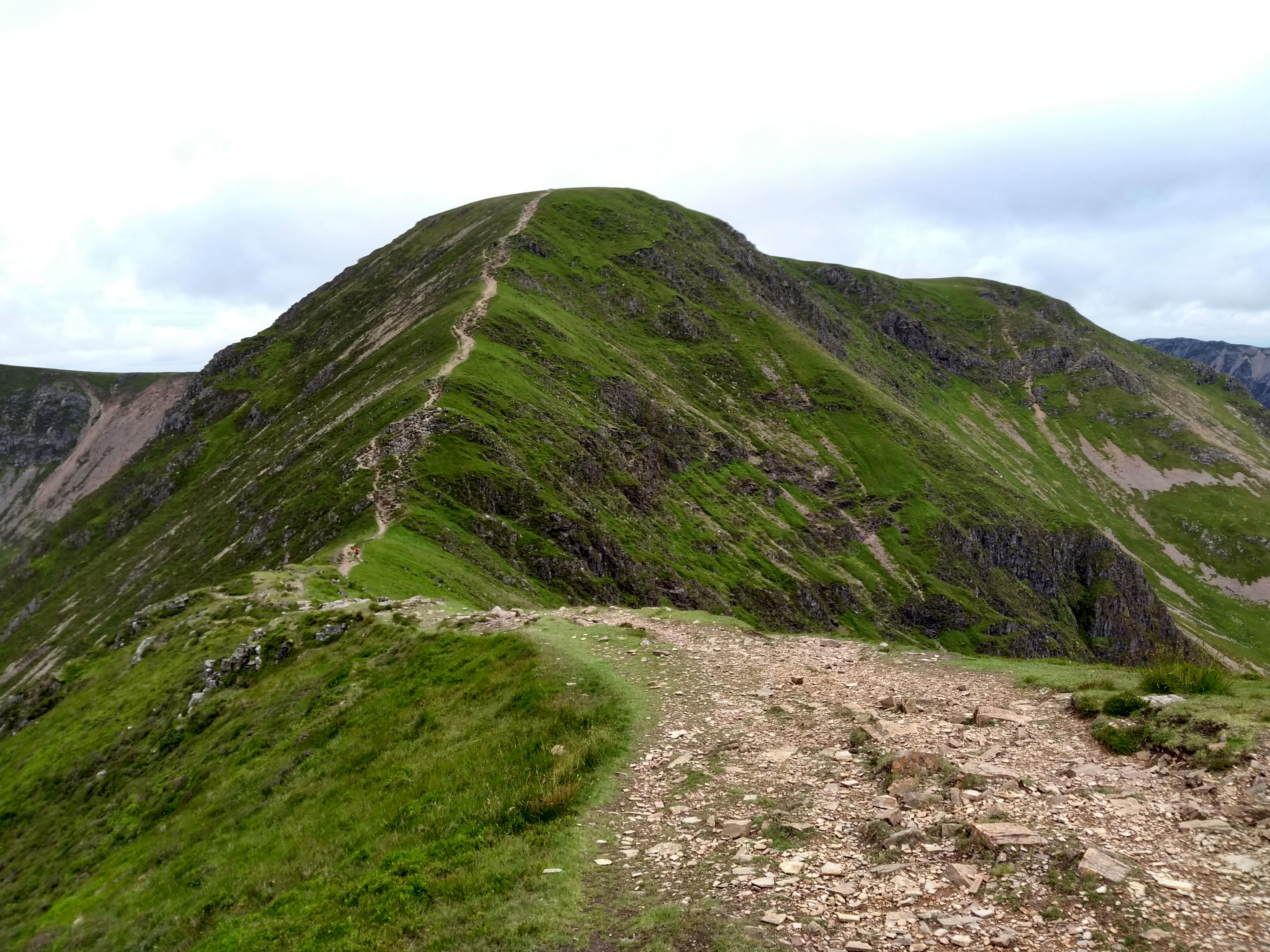 Crag Hill, viewed from the neighbouring summit of Sail to the east